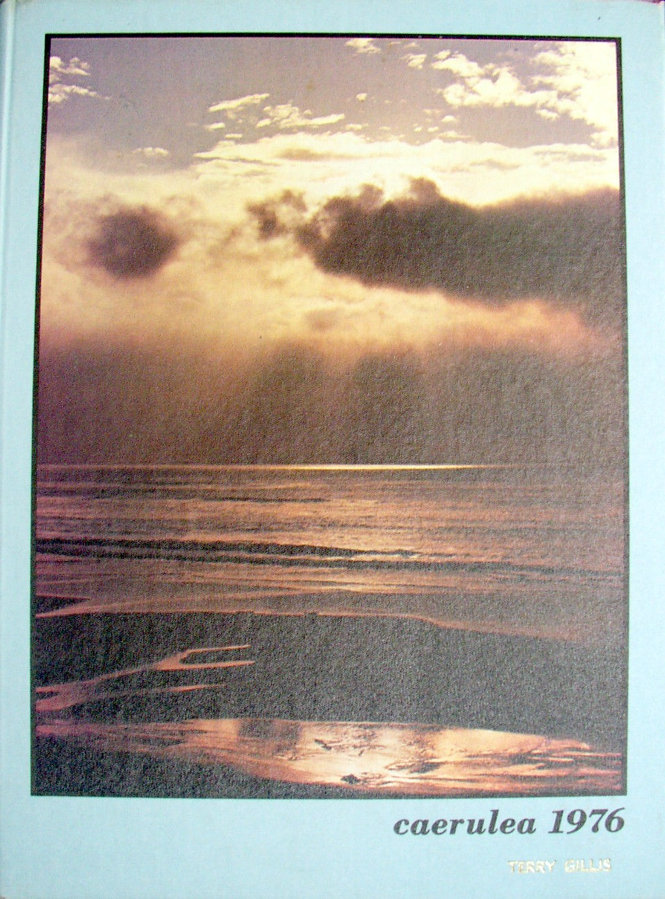 Front cover of the 1976 edition of the Caerulea Long Beach Polytechnic High School yearbook.